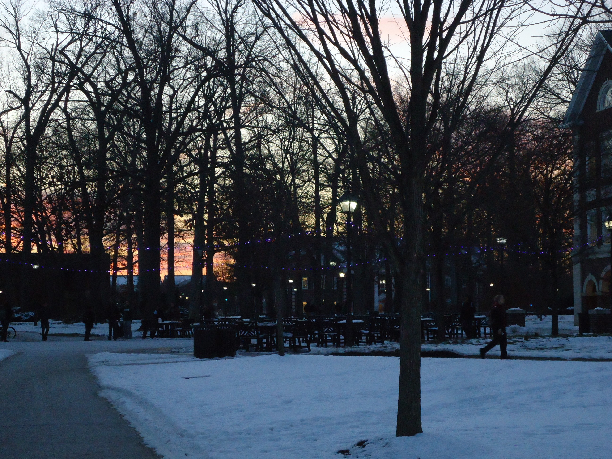 December sunset at The College of New Jersey (or TCNJ) in Ewing, New Jersey. The library I believe is to the right; Eickhoff Hall is to the left (not in view).